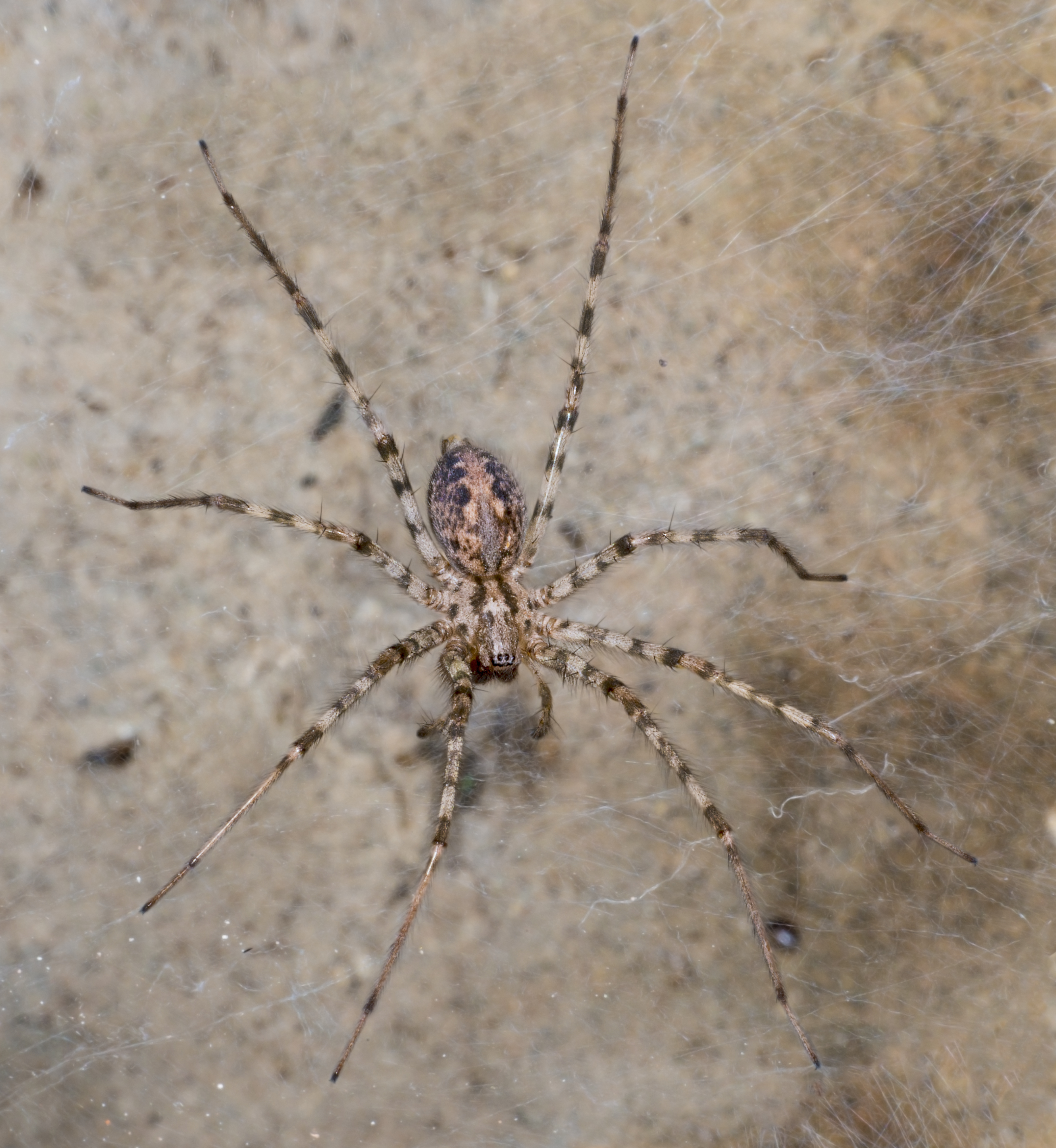 Tegeneria parietina